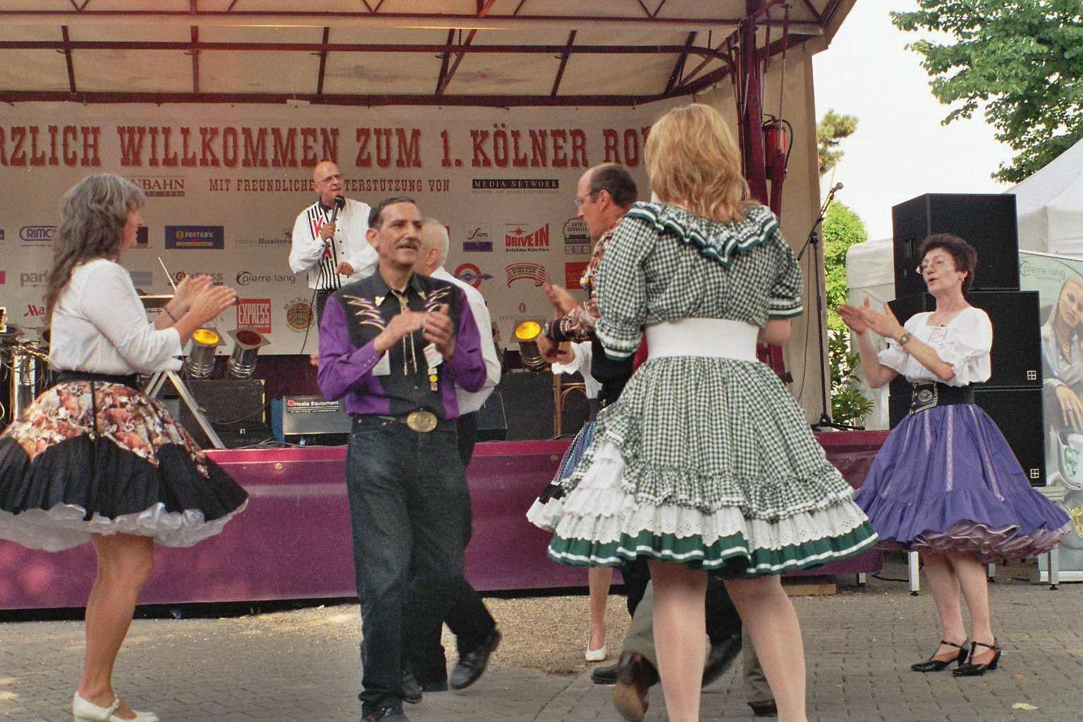 Caller with Square Dance Group